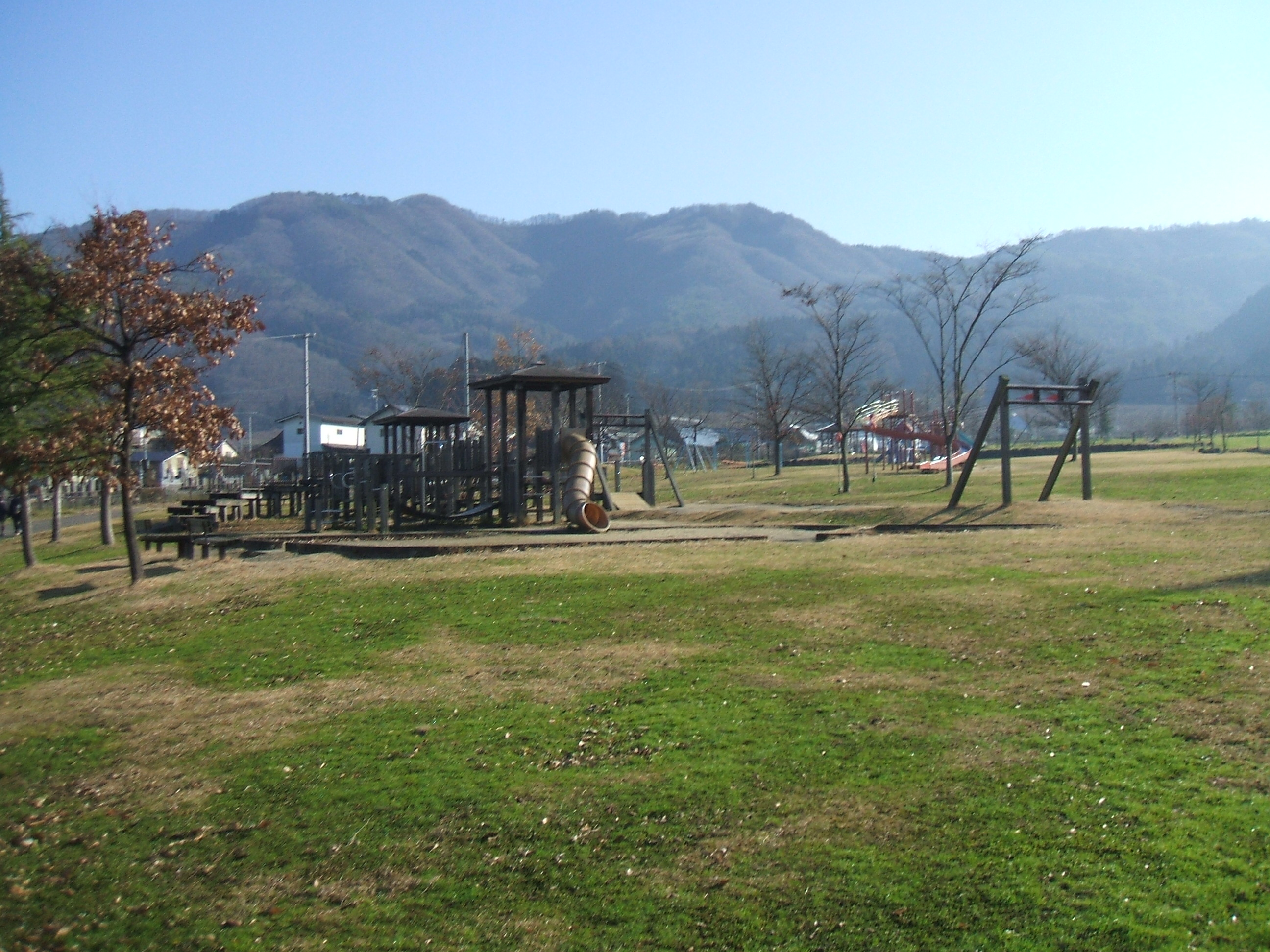 This is a landscape from Aizu-sogo-undo-kouen Park. This is taken at Aizuwakamatsu, Fukushima.